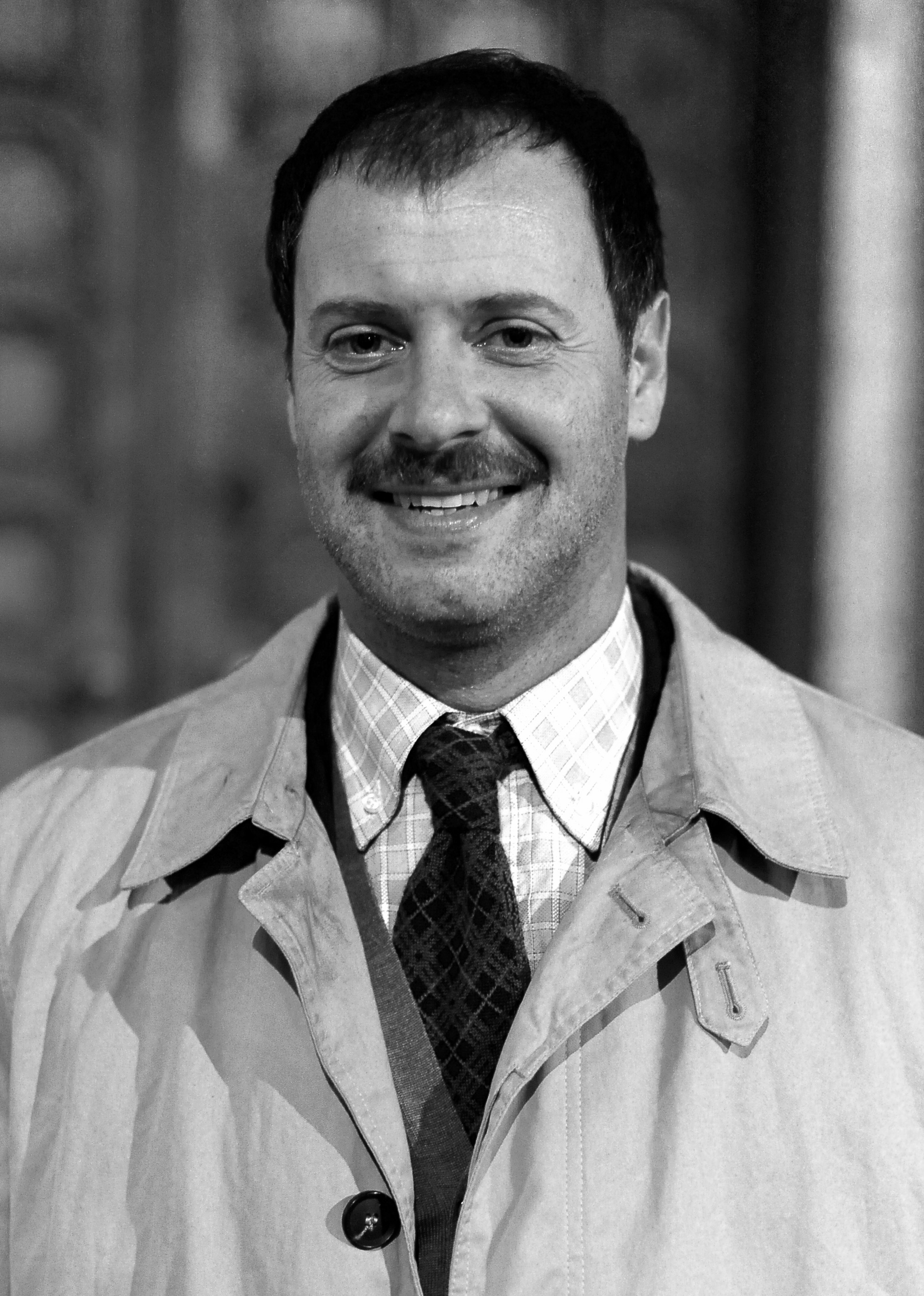 Actor Pietro Sermonti in Trento during filming of ReWined by Ferdinando Vicentini Orgnani.